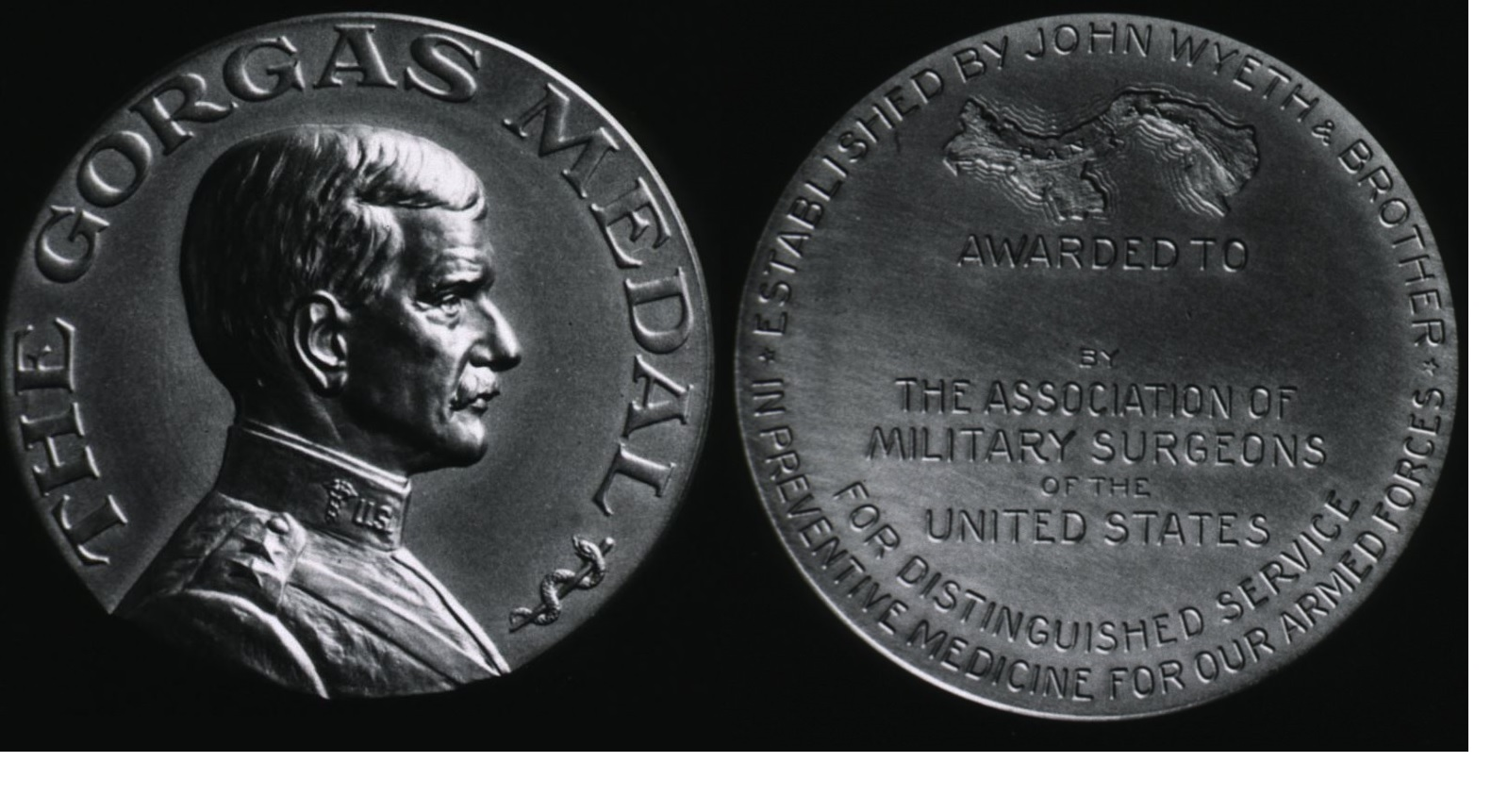 In 1942, the Gorgas Medal was established by Wyeth Laboratories of Philadelphia, Pennsylvania to honor Major General William Crawford Gorgas. The award was to be presented annually for ‘distinguished work in preventative medicine’. The award consisted of a Silver Medal, a scroll, and an honorarium of $500. In 2010, the Association of Military Surgeons of the United States (AMSUS) restructured the awards program and the Gorgas Medal and Prize was no longer awarded.